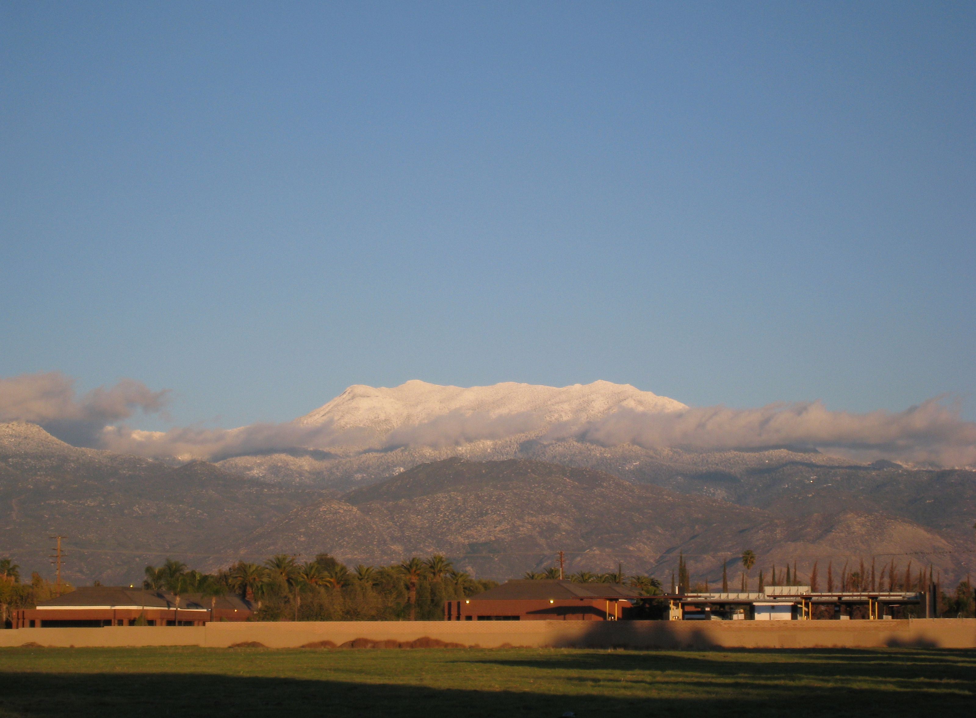 The San Jacinto Mountains, covered with snow, as seen from Hemet.